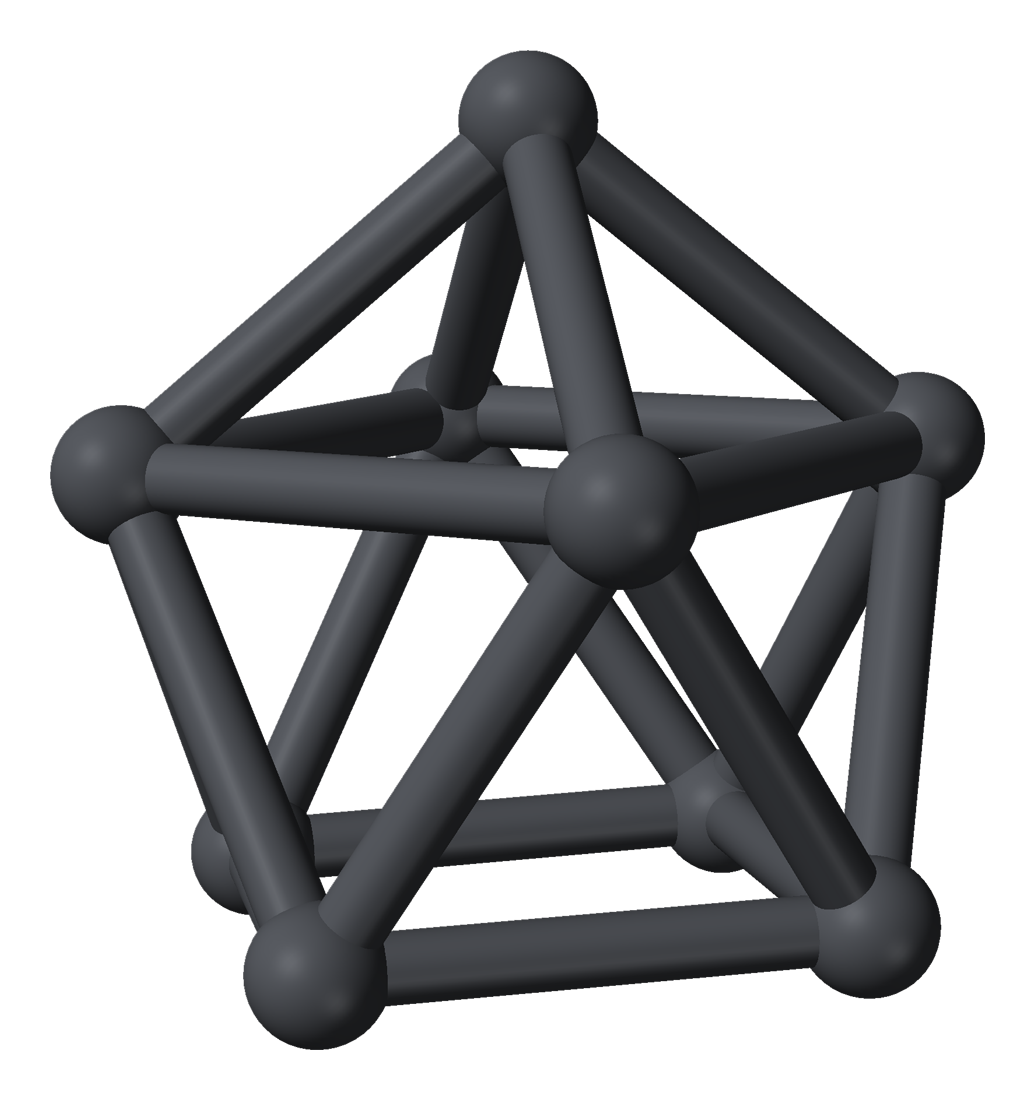 Ball-and-stick model of the nonaplumbide anion, [Pb9]4−, as found in the crystal structure of [K(18-crown-6)]2K2Pb9·(en)1.5. X-ray crystallographic data from Inorg. Chem. (2006) 359, 4774-4778. Model constructed in CrystalMaker 8.1. Image generated in Accelrys DS Visualizer.